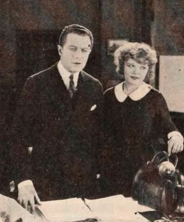 Still from for the American drama film Is Life Worth Living? (1921) with Eugene O'Brien and Winifred Westover, on page 58 of the July 23, 1921 Exhibitors Herald.